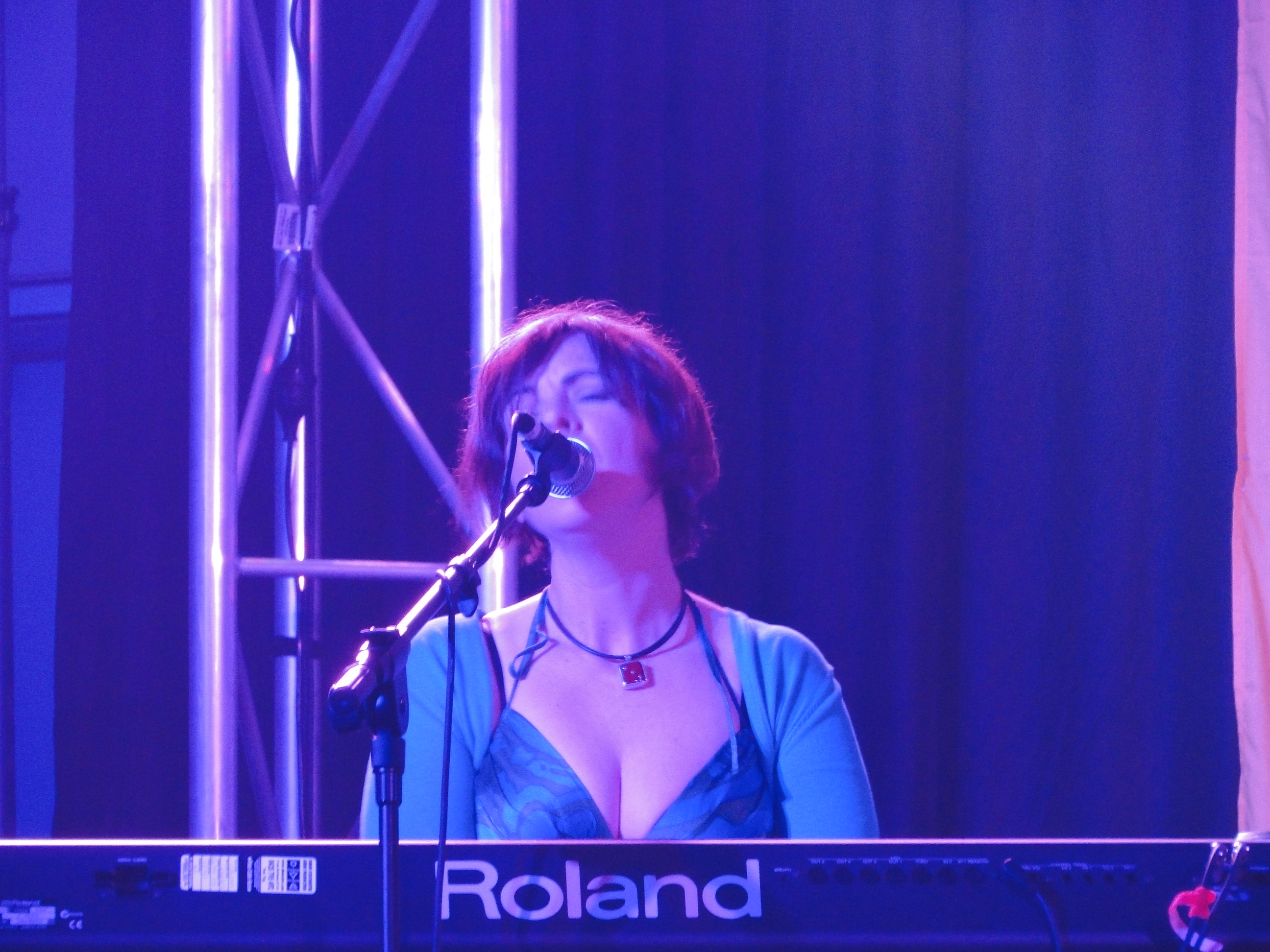 Eleanor McEvoy performing at the National Celtic Festival, Portarlington, Victoria, Australia in 2011.